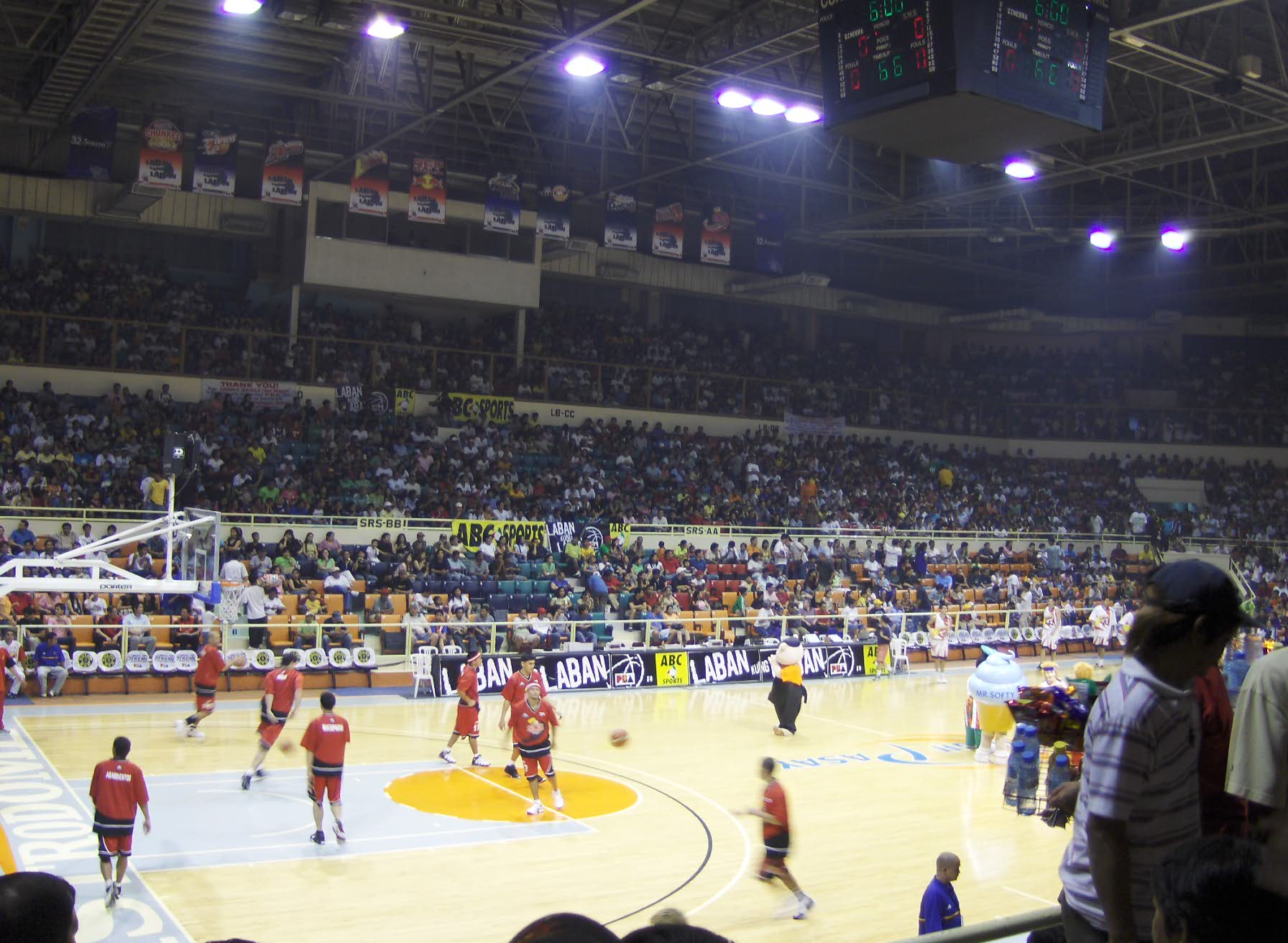 A view of the interior of the Cuneta Astrodome in Pasay City, during a basketball game between the Barangay Ginebra Kings and the San Miguel Beermen.